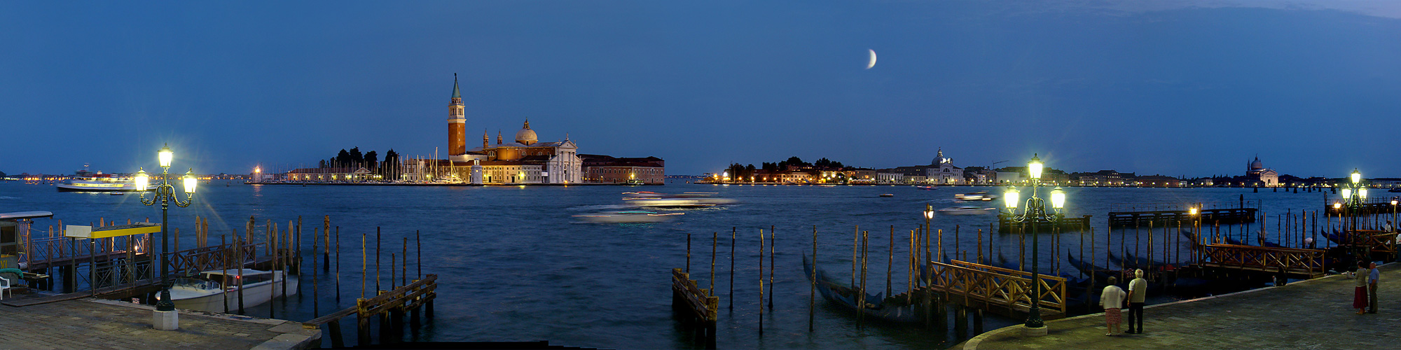 Venice, Veneto, Italy. Panorama seen from the wharf near Saint Mark's Square. On the opposite bank, the San Giorgio Maggiore Basilica on the island of same name. Further to the right, the Giudecca Island with the visible churches of Zitelle and Redentore.